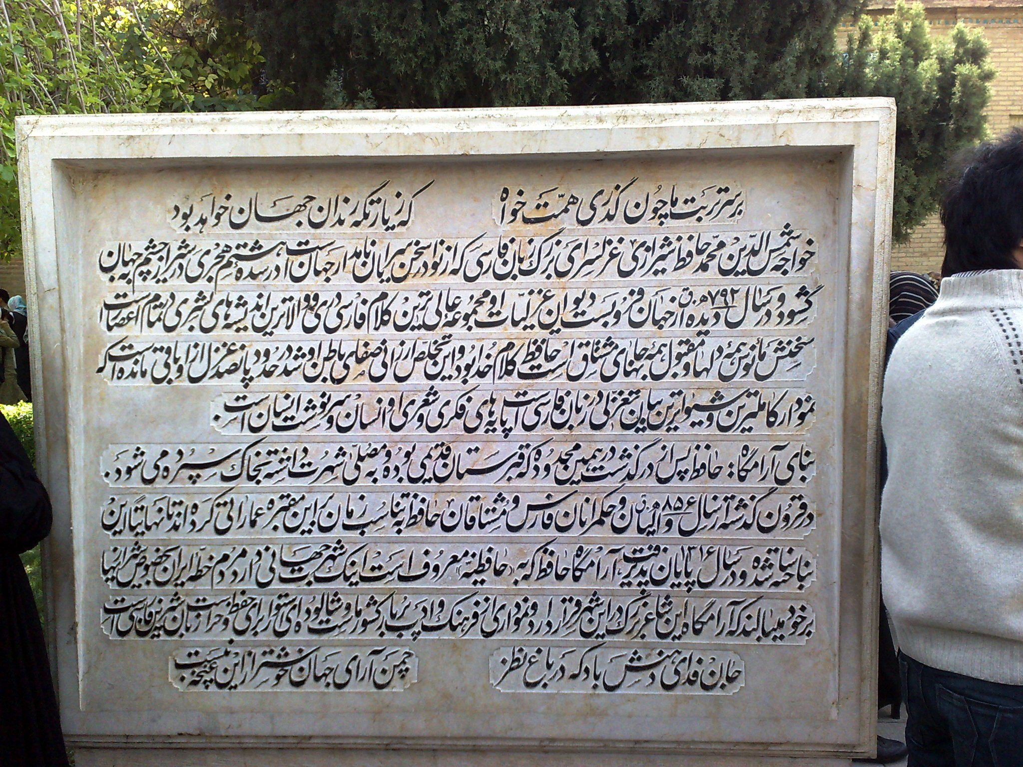 shiraz hafzie